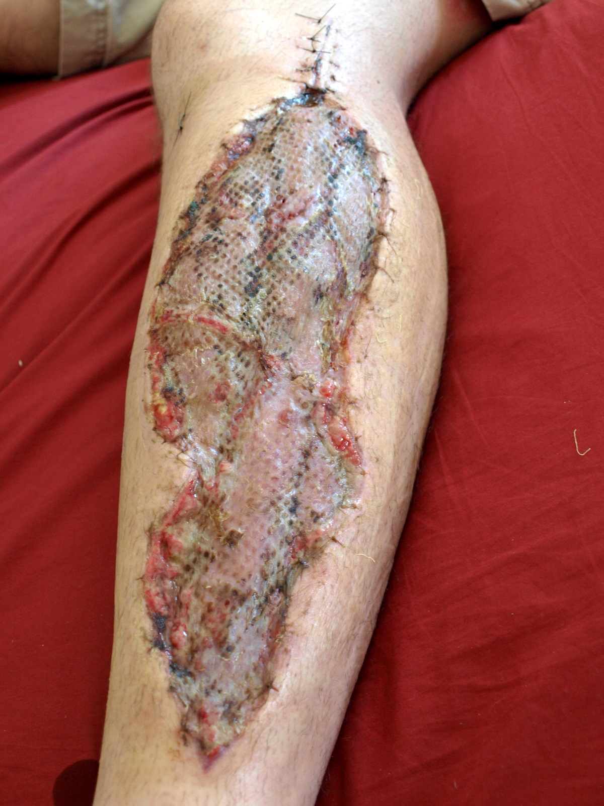 A fasciotomy one week after a skin graft had been applied.